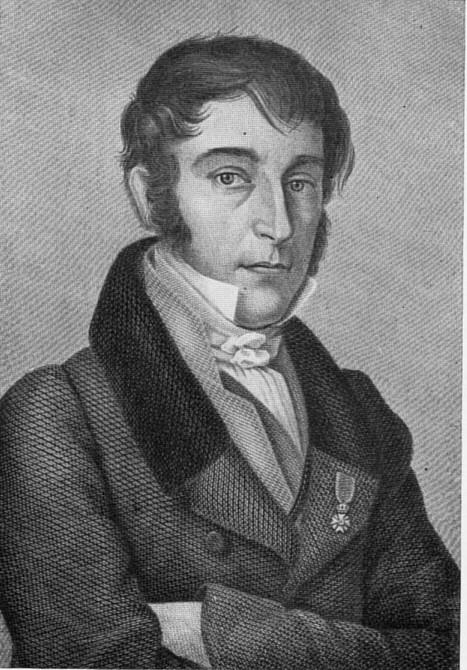 Carl Friedrich Philipp von Martius (* 17th April 1794 in Erlangen; † 13th December 1868 in Munich), german naturalist, botanist and ethnograph